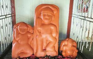 Two Maruti Sculpture in village Mahiravani temple - free to use for non commercial use